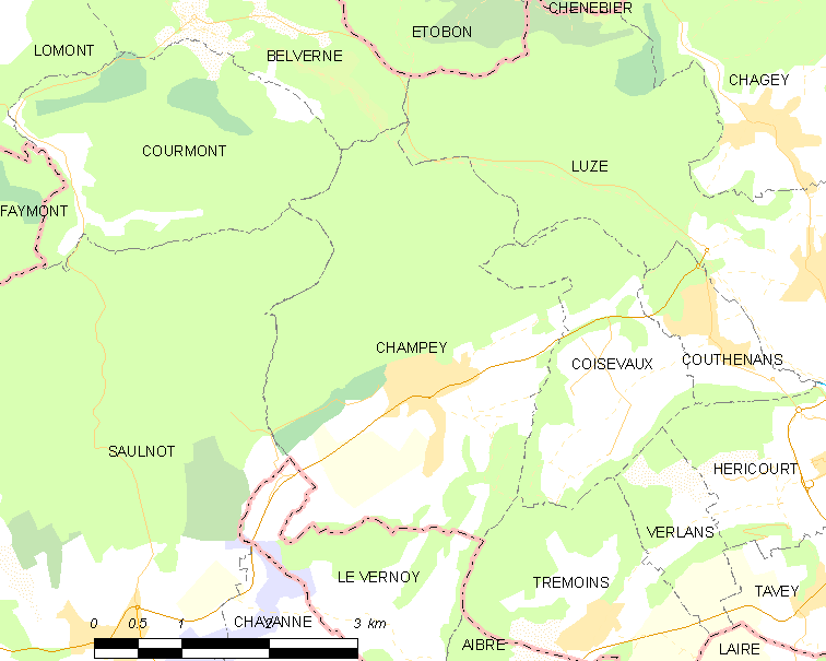 Map of French municipality